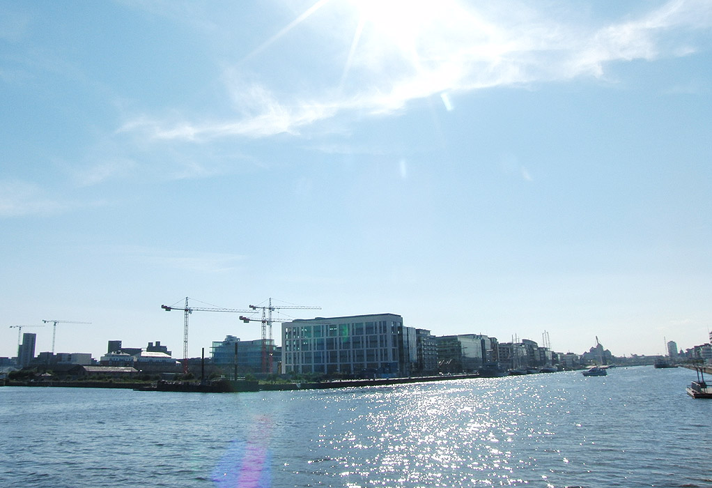 u2-tower-photo